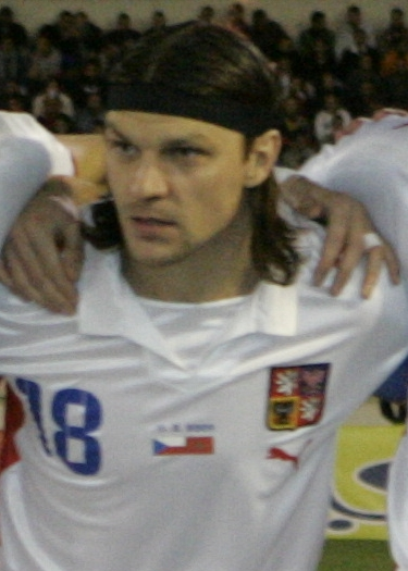 Tomáš Ujfaluši (Czech Republic) before the friendly match against Morocco on February 11, 2009